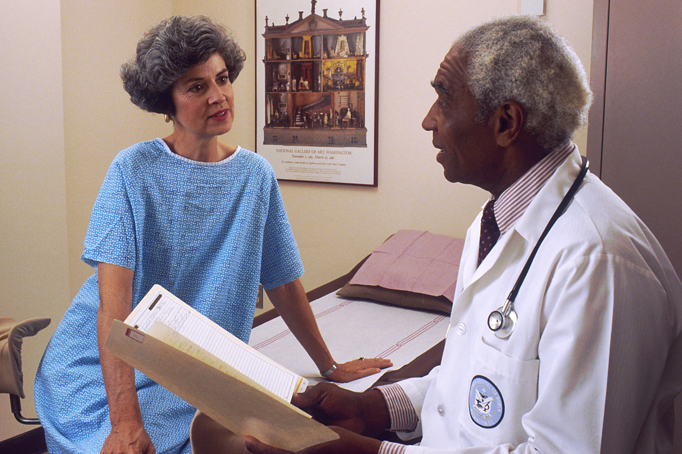 Title Doctor Consults with Patient Description An African-American male doctor consults with an adult female patient dressed in a medical gown in an examining room. Topics/Categories People -- Adult People -- Health Professional and Patient Type Color, Photo Source National Cancer Institute